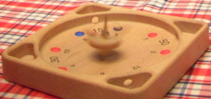 Photo I took of the game.